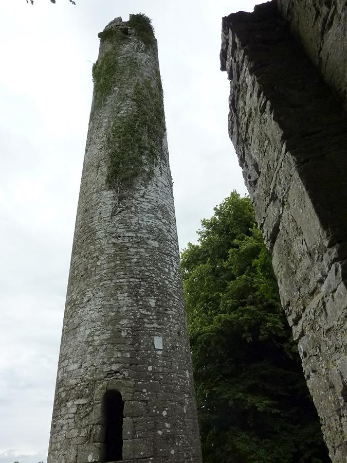 Killree round tower (Ireland, Kells, Co. Kilkenny)